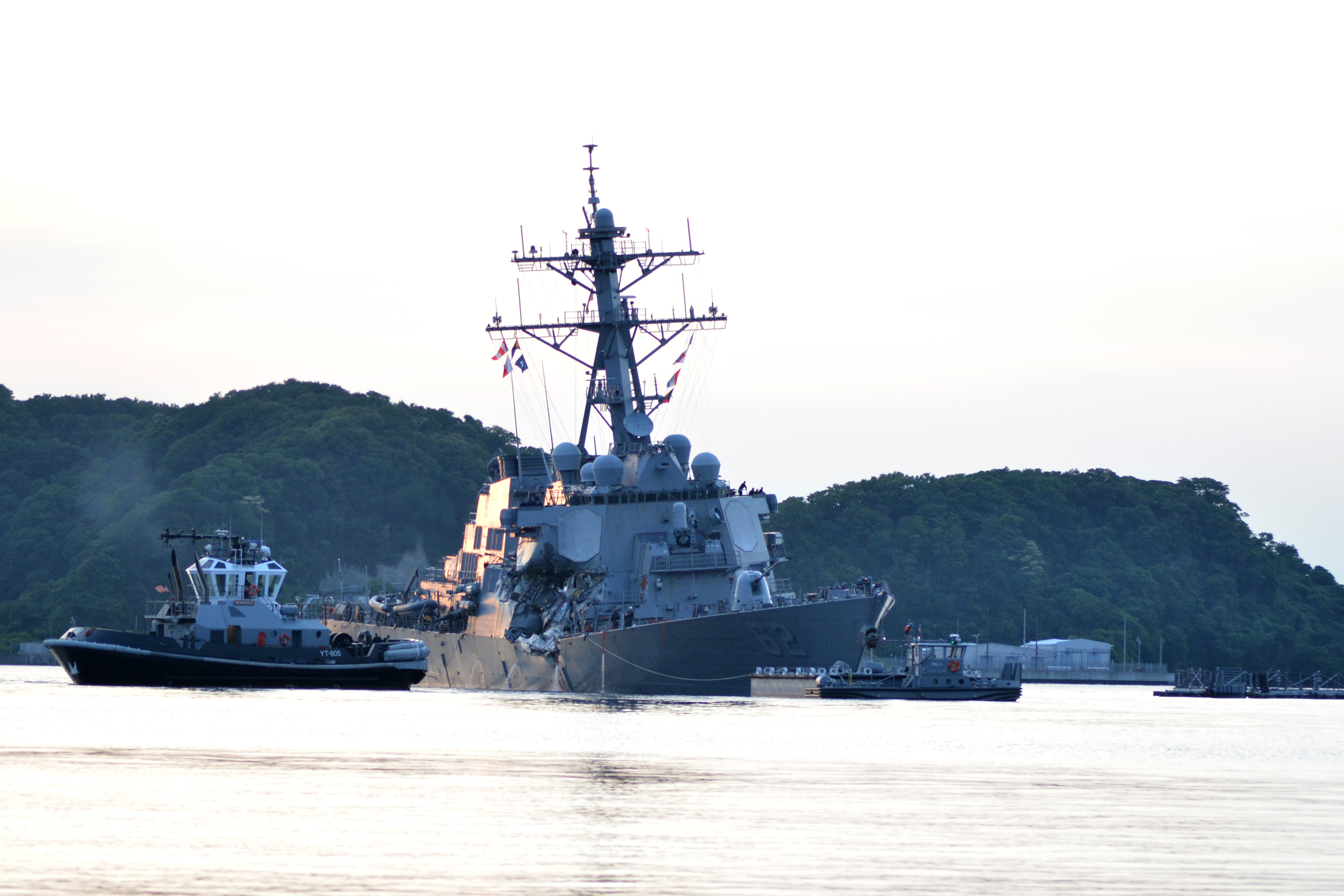 170617-N-XN177-158 YOKOSUKA, Japan (June 17, 2017) The Arleigh Burke-class guided-missile destroyer USS Fitzgerald (DDG 62) returns to Fleet Activities (FLEACT) Yokosuka following a collision with a merchant vessel while operating southwest of Yokosuka, Japan. (U.S. Navy photo by Mass Communication Specialist 1st Class Peter Burghart/Released)